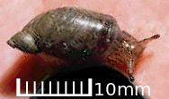 Kanab Ambersnail, Oxyloma haydeni kanabensis, shown beside a dime (10¢ coin). Coin diameter: 18 mm, 0.71 in.